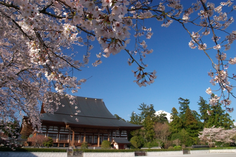 Photo of the Reception Hall (客殿: kyakuden) at Taisekiji in Fujinomiya, Shizuoka, Japan. Peak of Mt. Fuji behind the trees. Private photo released in the public domain.